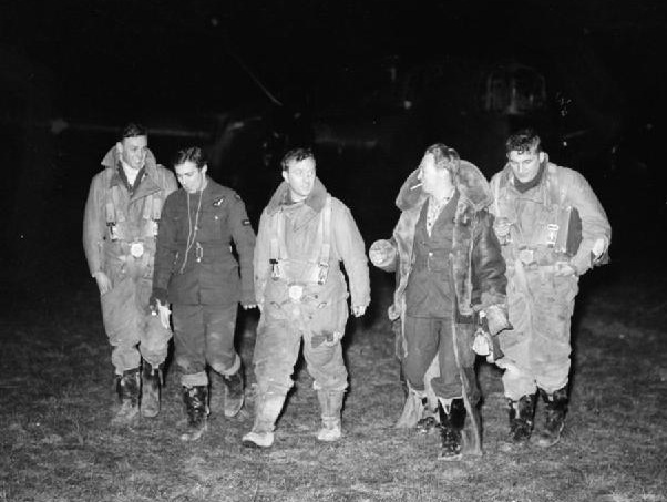 Hamish Mahaddie and crew disembark from their Whitley bomber at the end of a mission, 1939